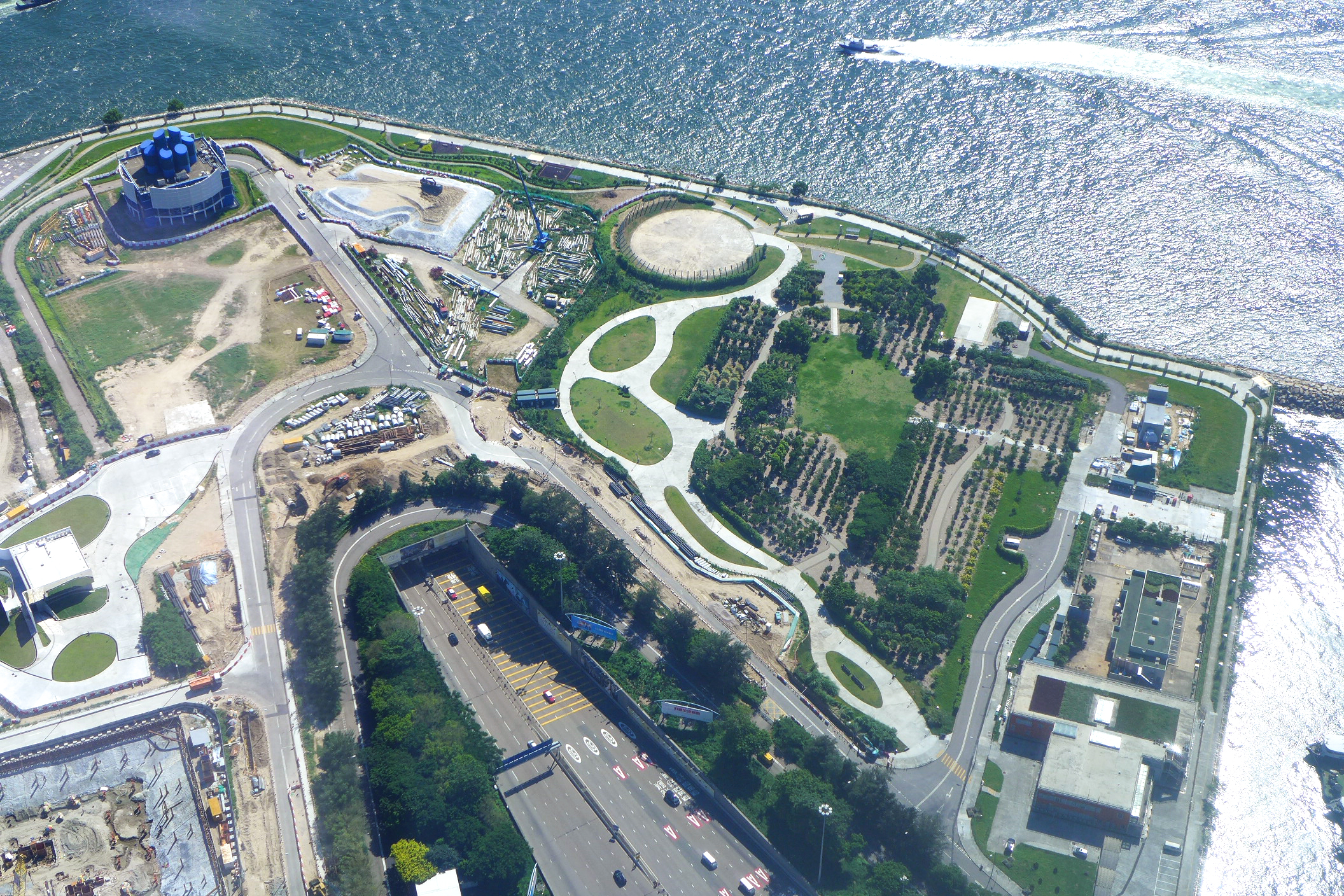 WKCD Nursery site overview